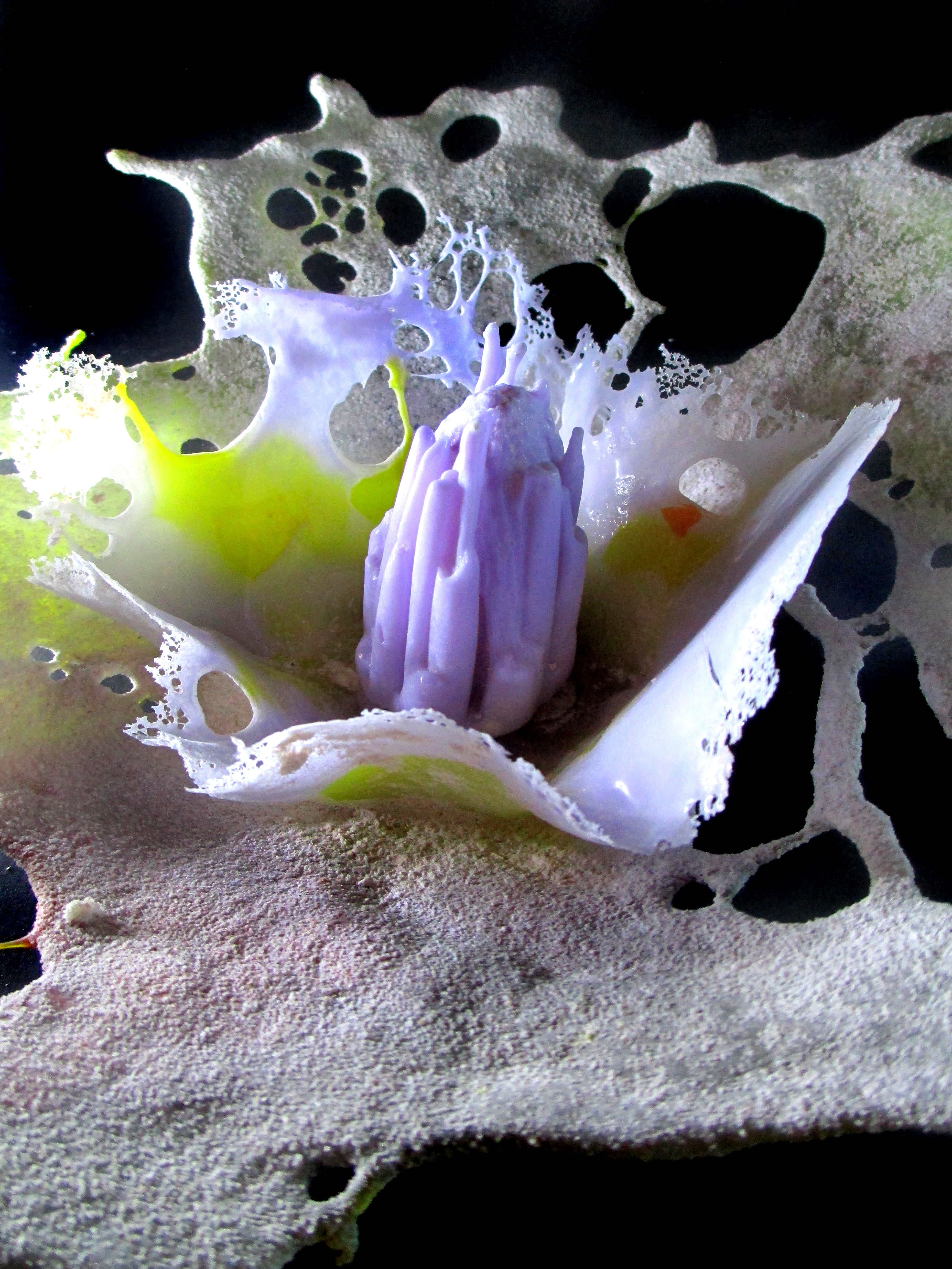 Glass object made of coloured glass powders by fusing in kiln.